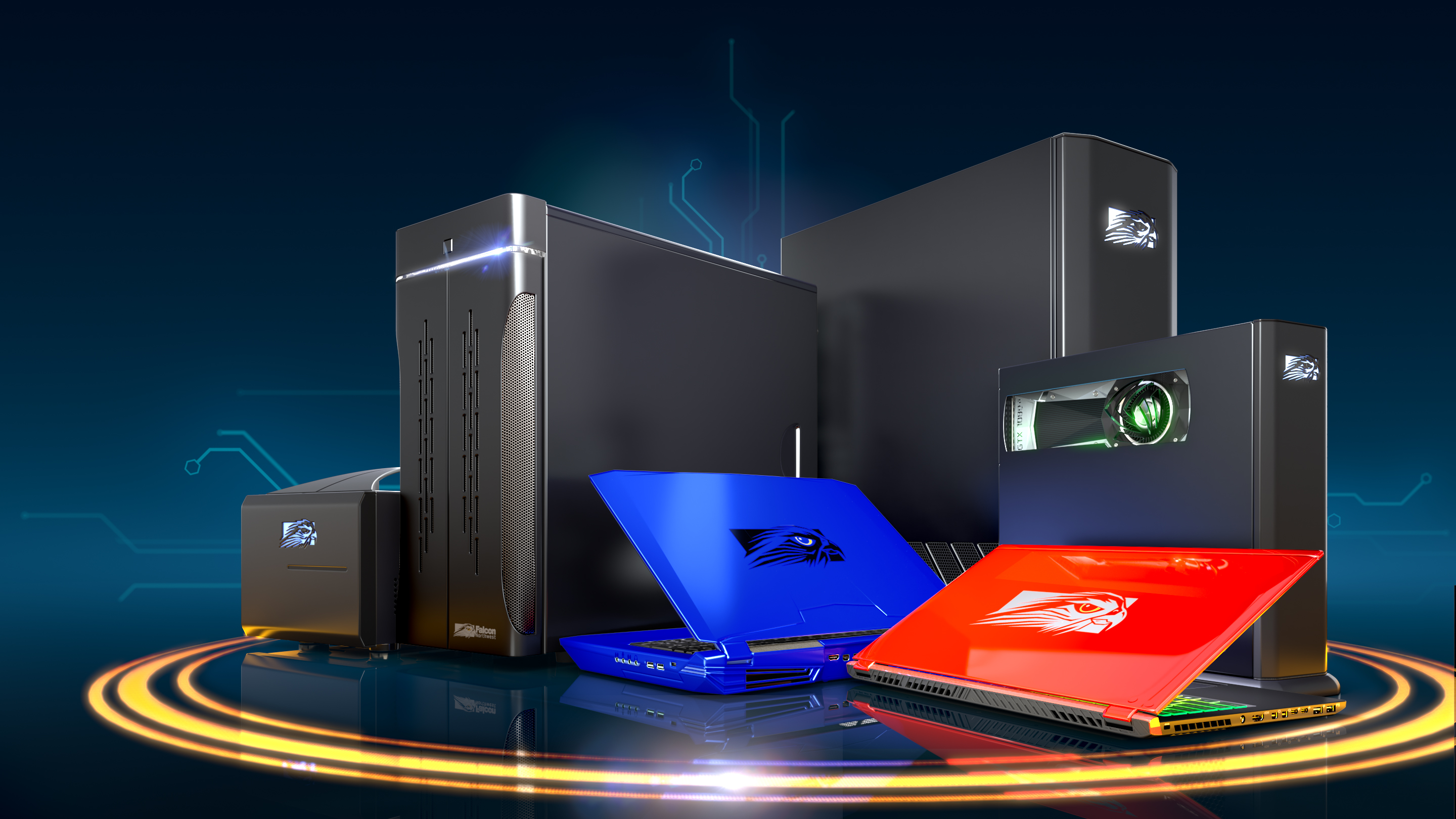 Falcon Northwests custom laptop and desktop PCs. This image is representative of models created in the late 2010s.